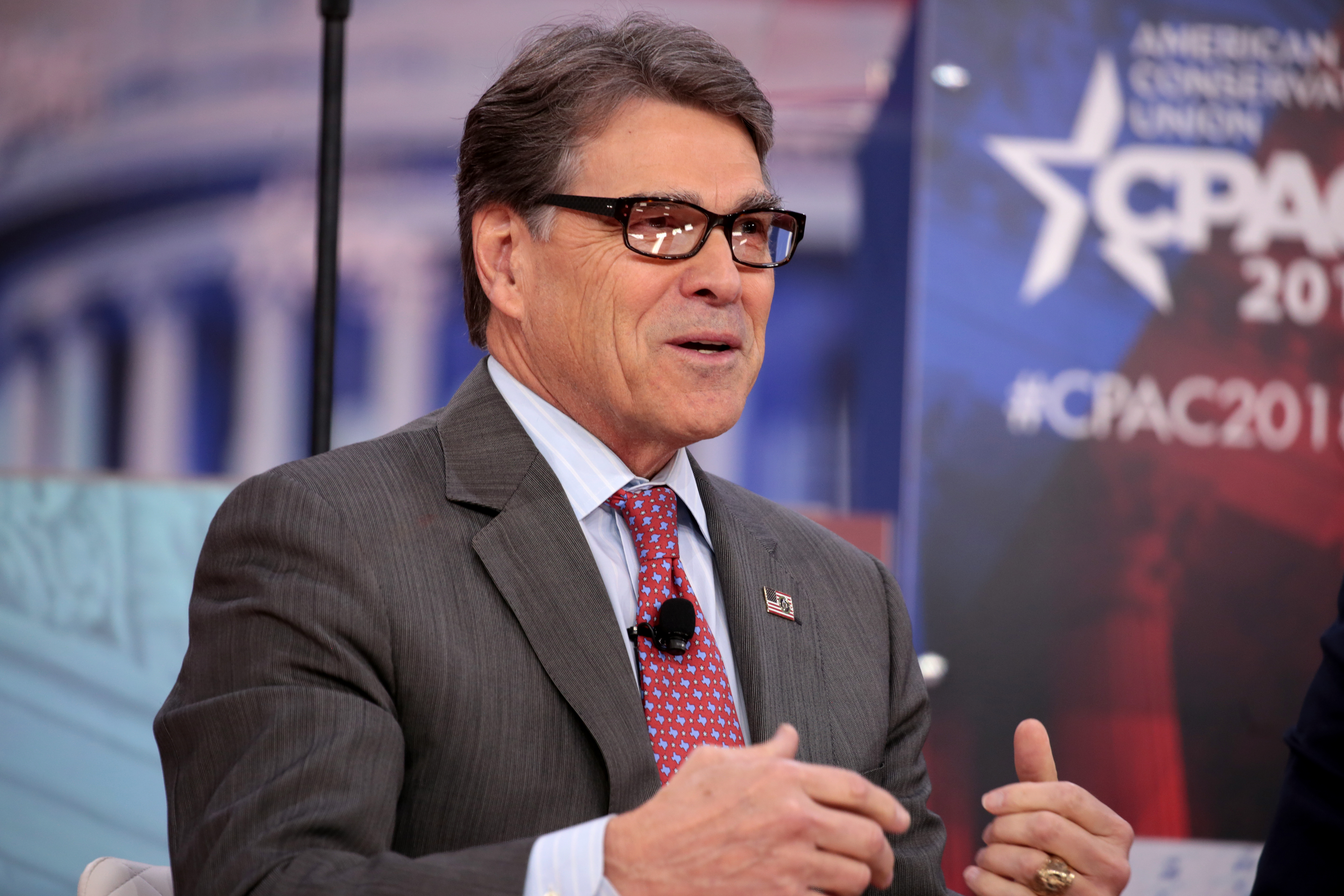 U.S. Secretary of Energy Rick Perry speaking at the 2018 Conservative Political Action Conference (CPAC) in National Harbor, Maryland.